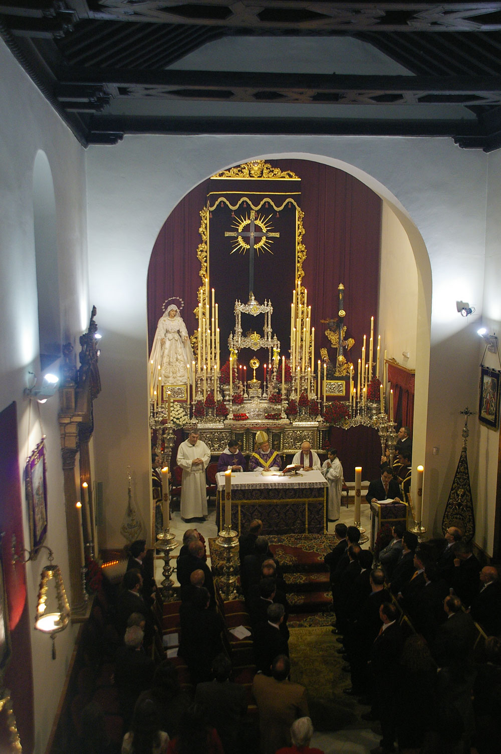 Interior de la iglesia de San Lázaro durante una ceremonia de la cofradía del Rocío